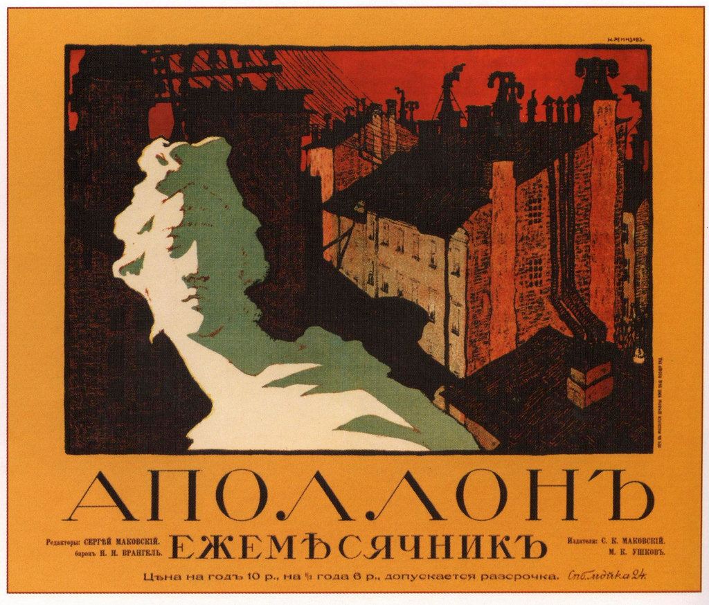 Advertising poster for Apollon, Russian magazine of the arts, music, theatre and literature, connected to the Symbolist movement (published in 1909-17).